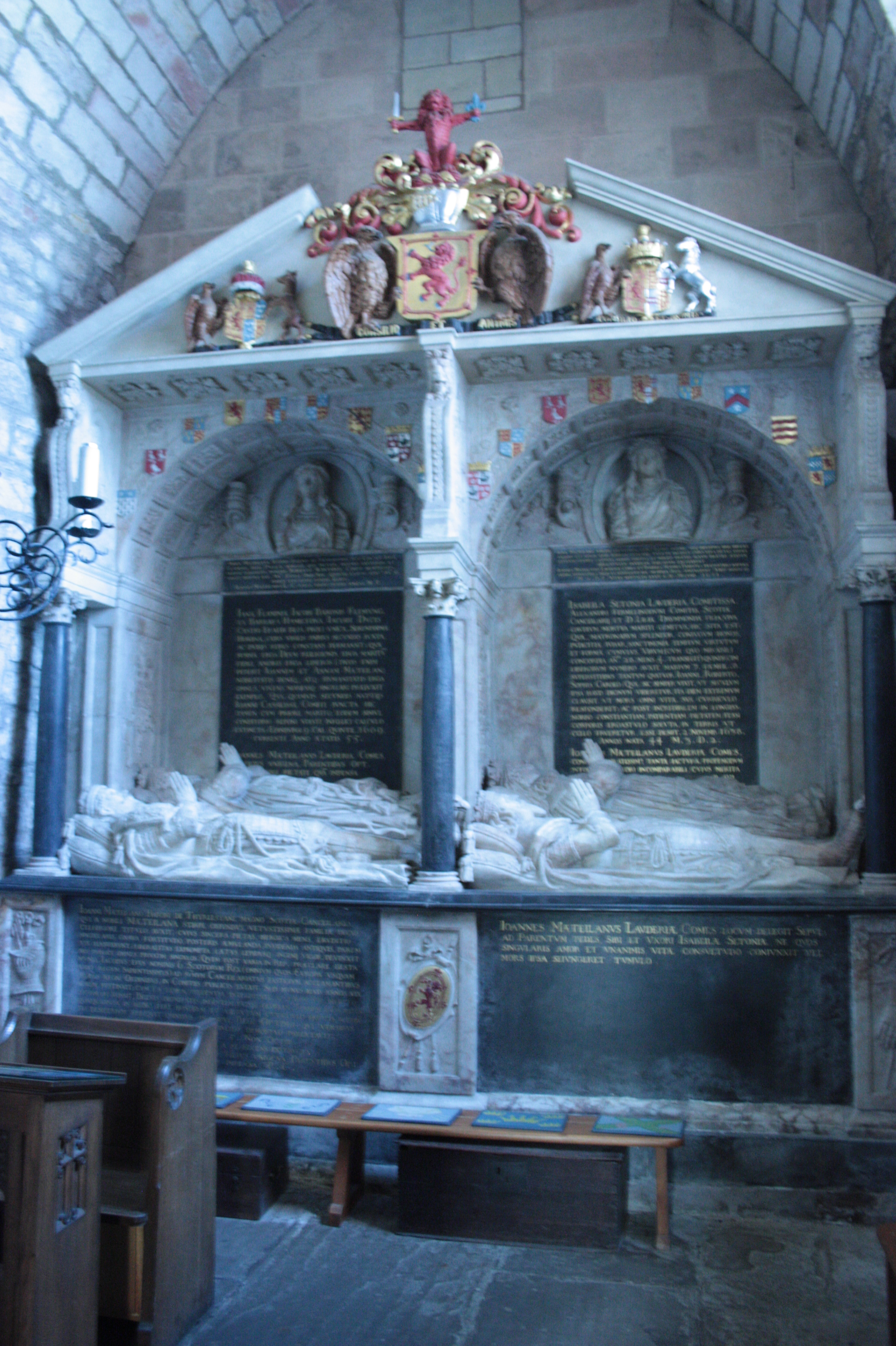 The Maitland tomb, St Mary's Church, Haddington